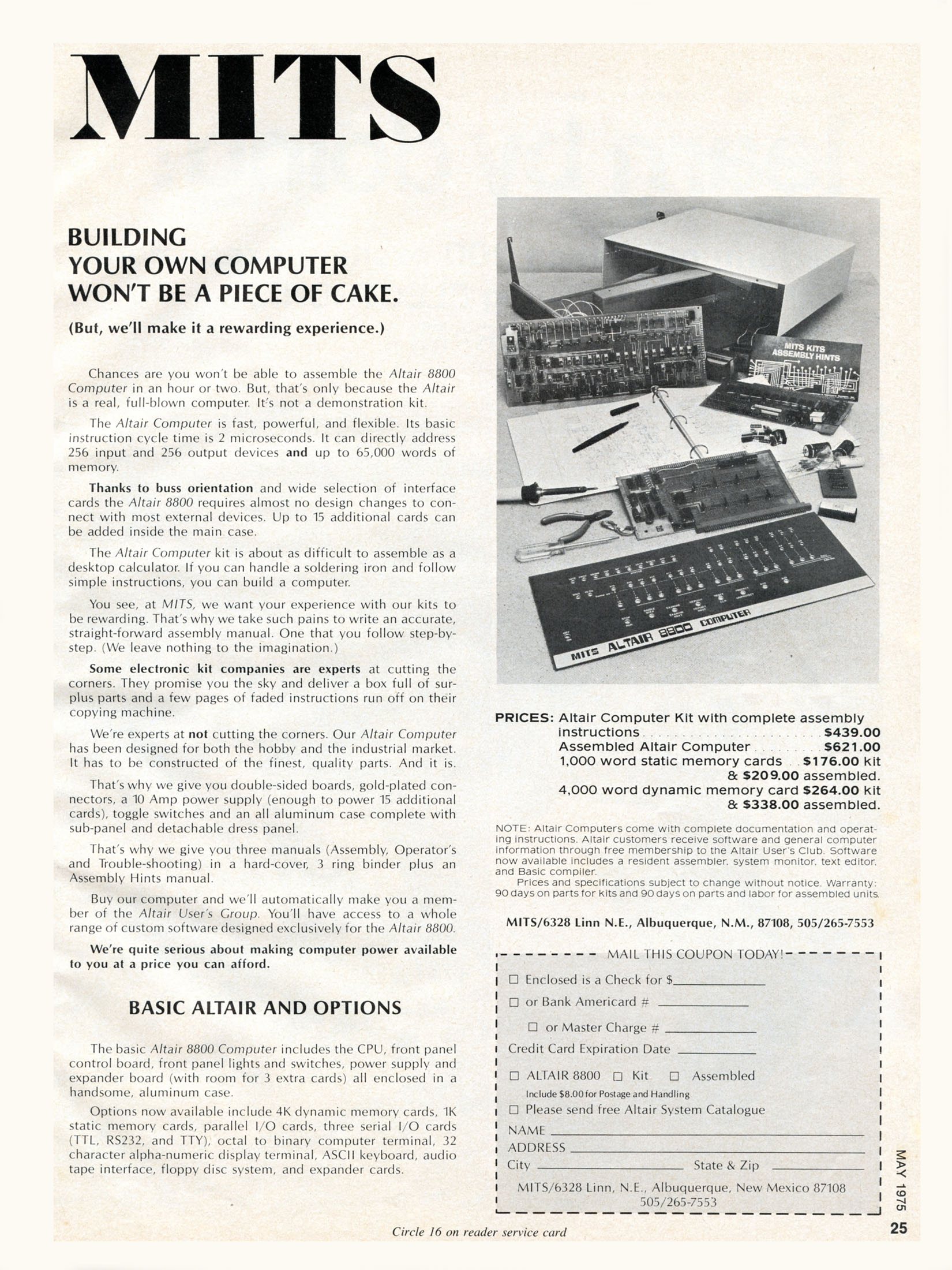 The MITS Altair 8800 computer was the first commercially successful home computer. Paul Allen and Bill Gates started Microsoft to write software for the Altair. This advertisement appeared in Radio-Electronics, Popular Electronics and other magazines in May 1975.